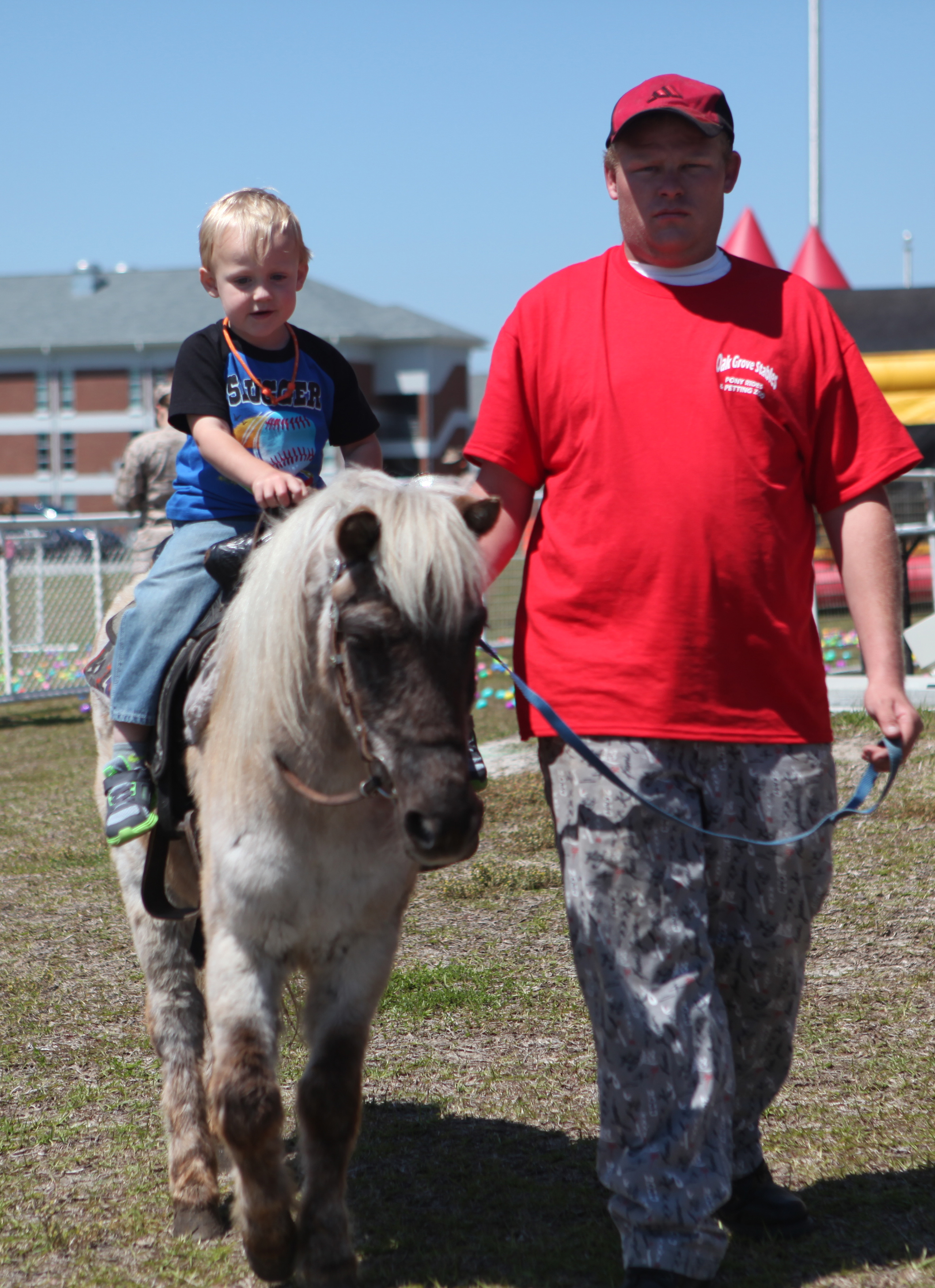 Colin, a military child rides a pony during the annual School of Infantry-East Spring Break Social, hosted at Ivy Hall aboard Camp Geiger, recently. Oak Gove Stables brought their petting zoo, which included a goose, llama, rabbit, chicken, duck, kids and goats. Children fed the farm animals and saddled up for pony rides.